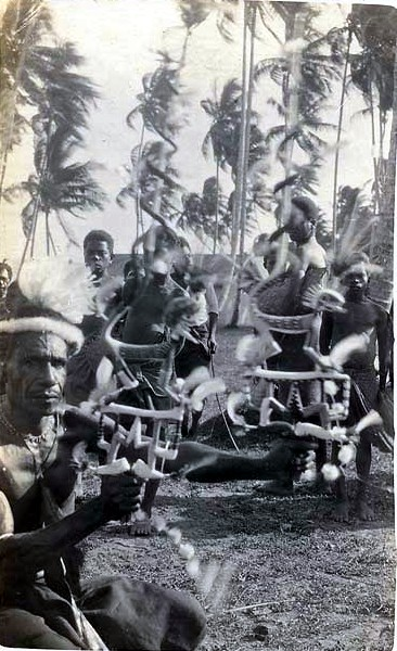 Dancers of the Tolai people, Malakuna near the town of Rabaul, Gazelle Peninsula of New Britain, Papua New Guinea. c 1918. Private photograph printed on Kodak Austral stock.